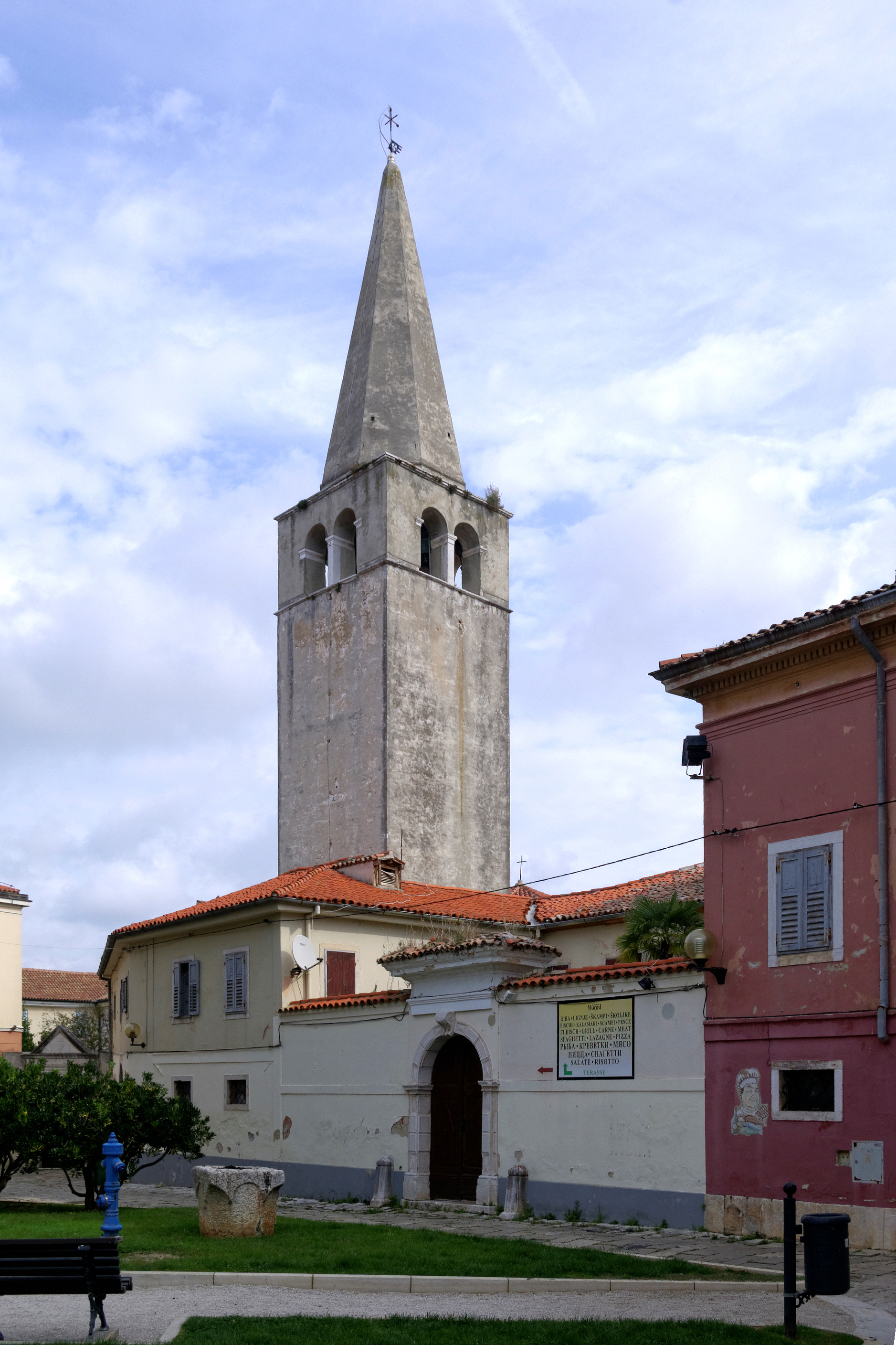 Croatia, Poreč, tower of the Euphrasian Basilica